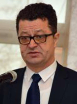 President of the Croatian Democratic Union 1990 Martin Raguž